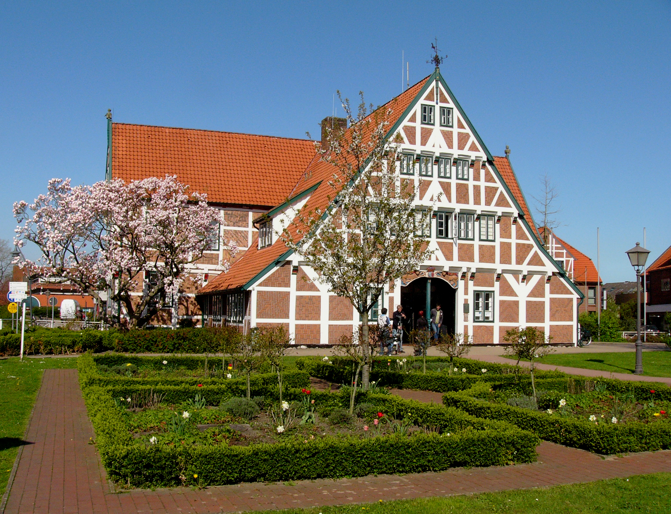 City hall in Jork, Germany